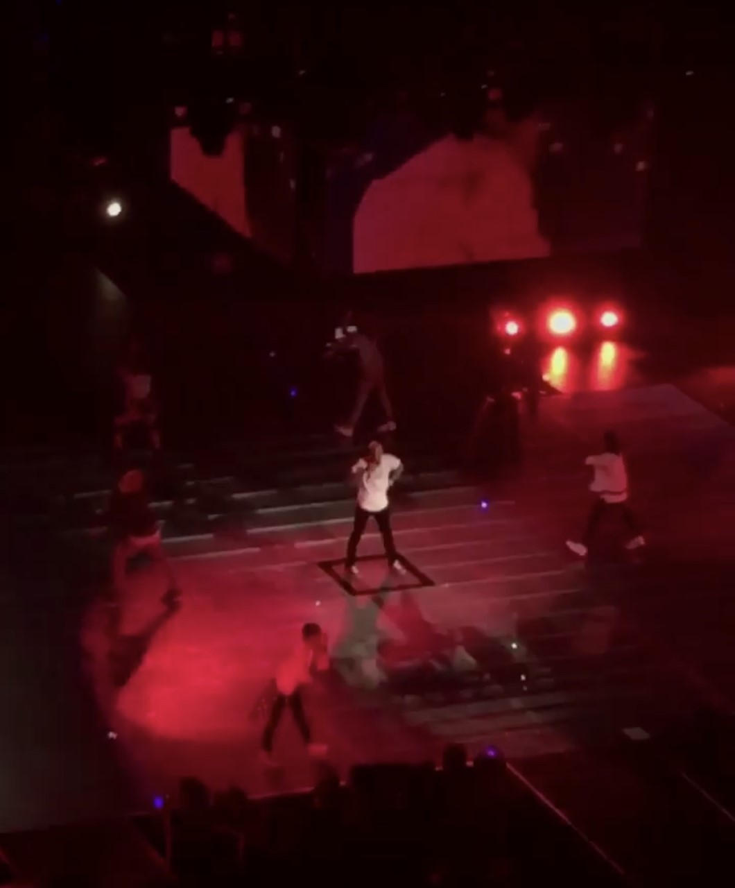 Chris Brown performing at Barclays Center in 2017